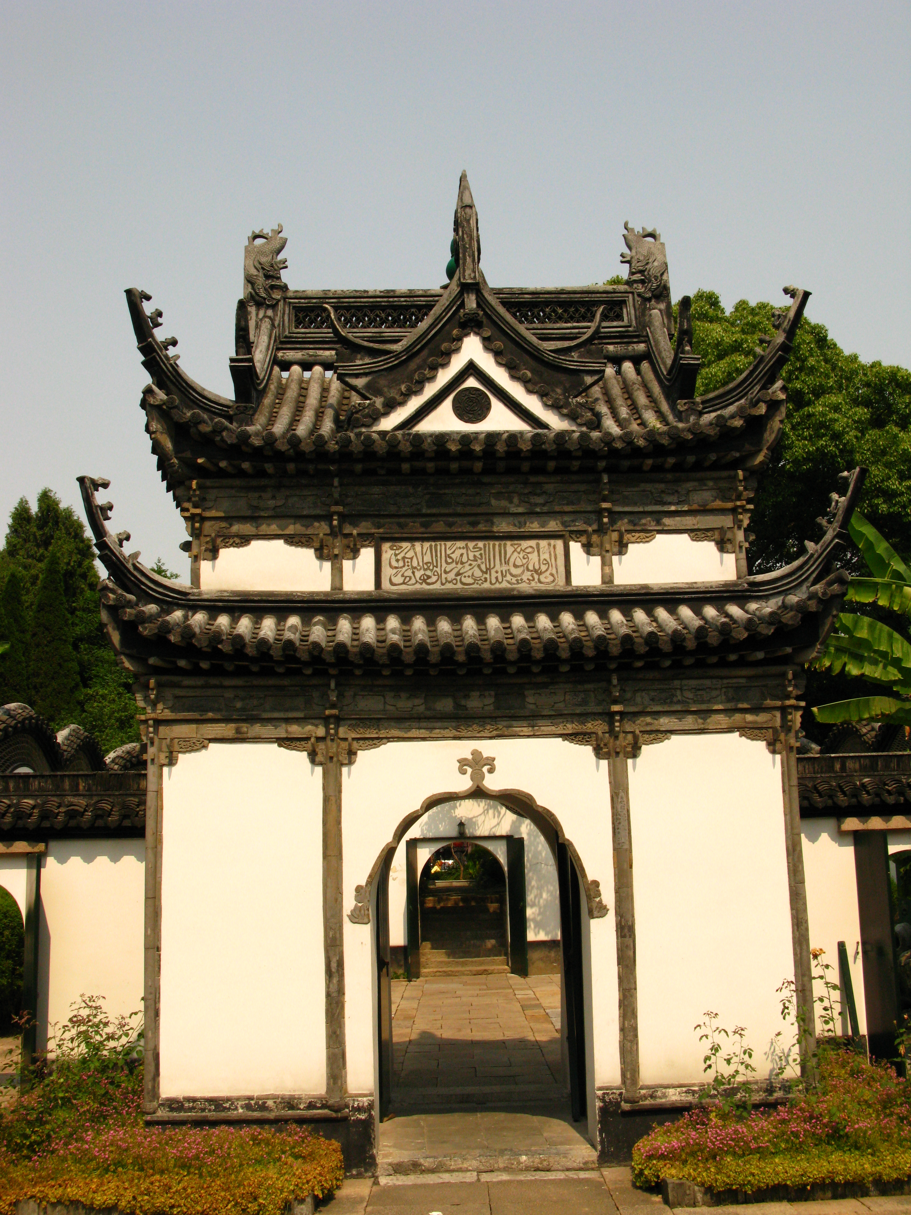 Song Jiang Mosque, one of the oldest Islamic buildings around Shanghai. Rebuilding started 1985; and today it is again a place of worship - a good sign of how things have changed in China.